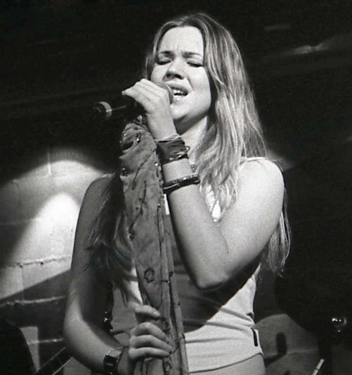 Joss Stone, at Salumeria della Musica, Milan, in 2005.